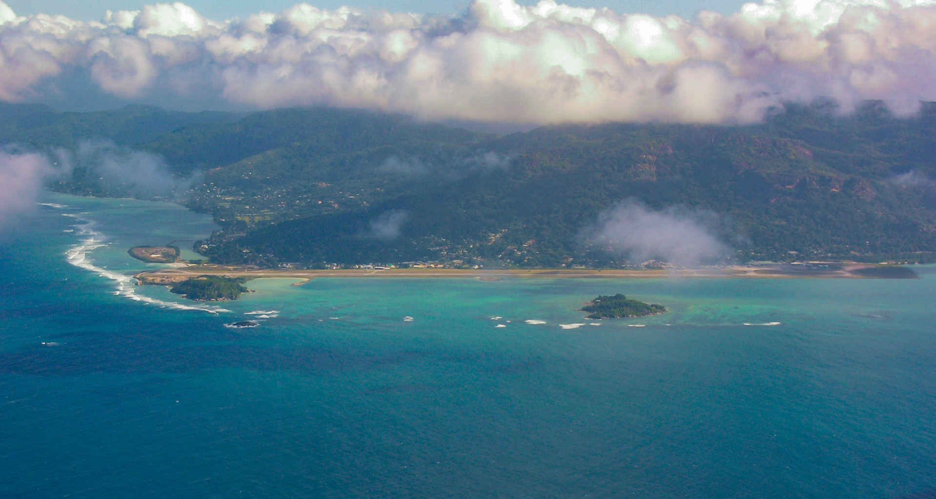 Seychelles, approach into Mahé International Airport